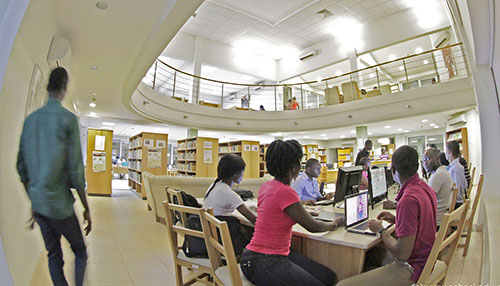 A snapshot of students working in Ashesi's Warren Library